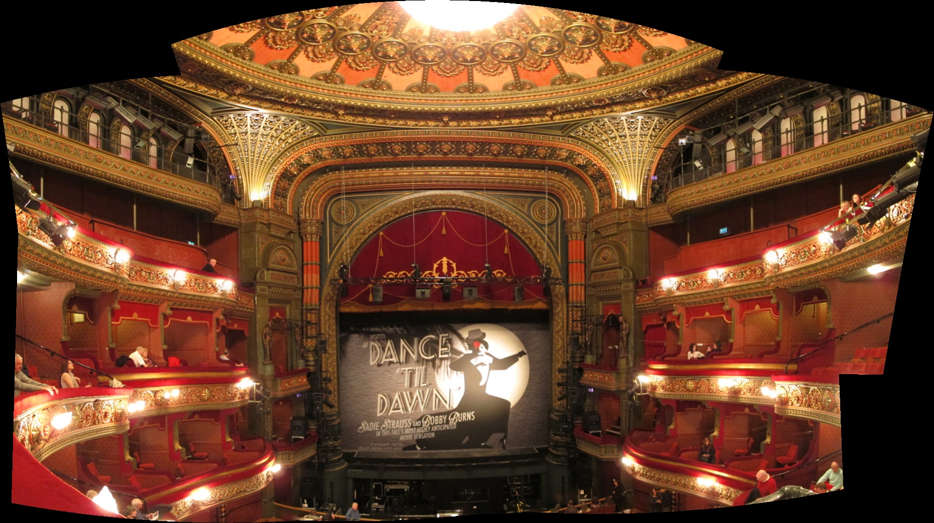 The Grand Theatre, Leeds, Yorkshire, England. Showing auditorium.